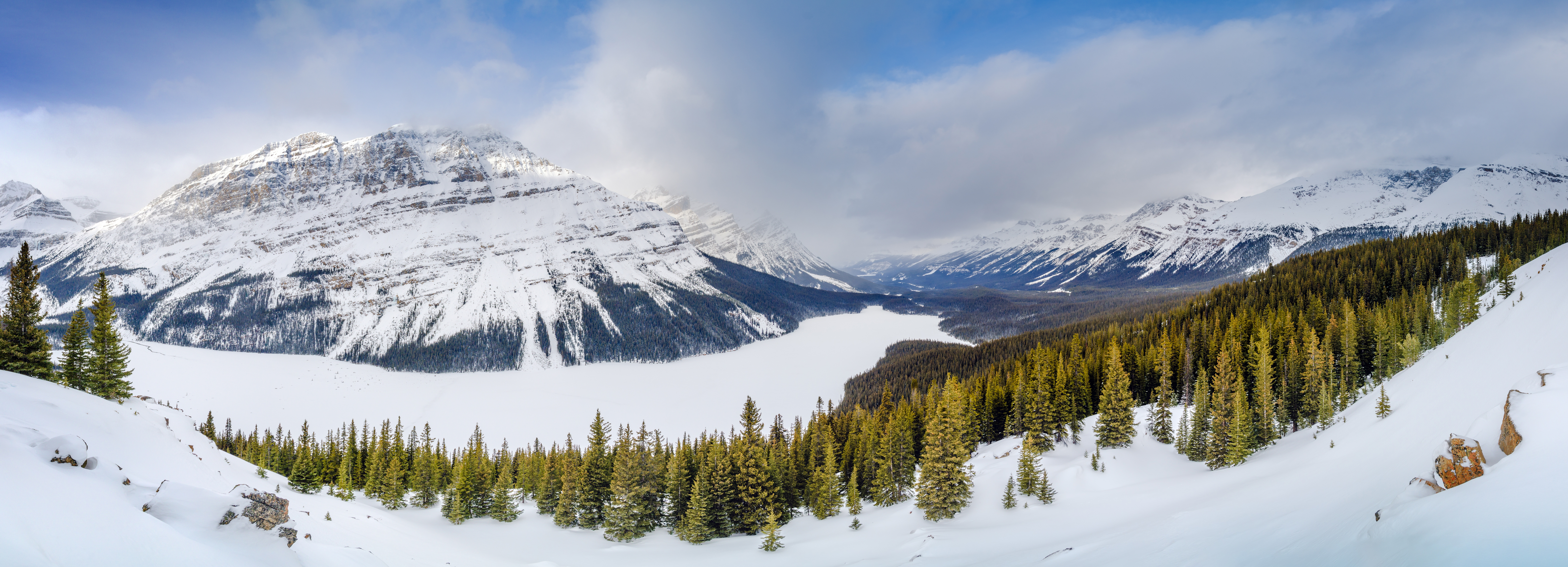 Peyto Lake in winter, Banff National Park, Alberta, Canada